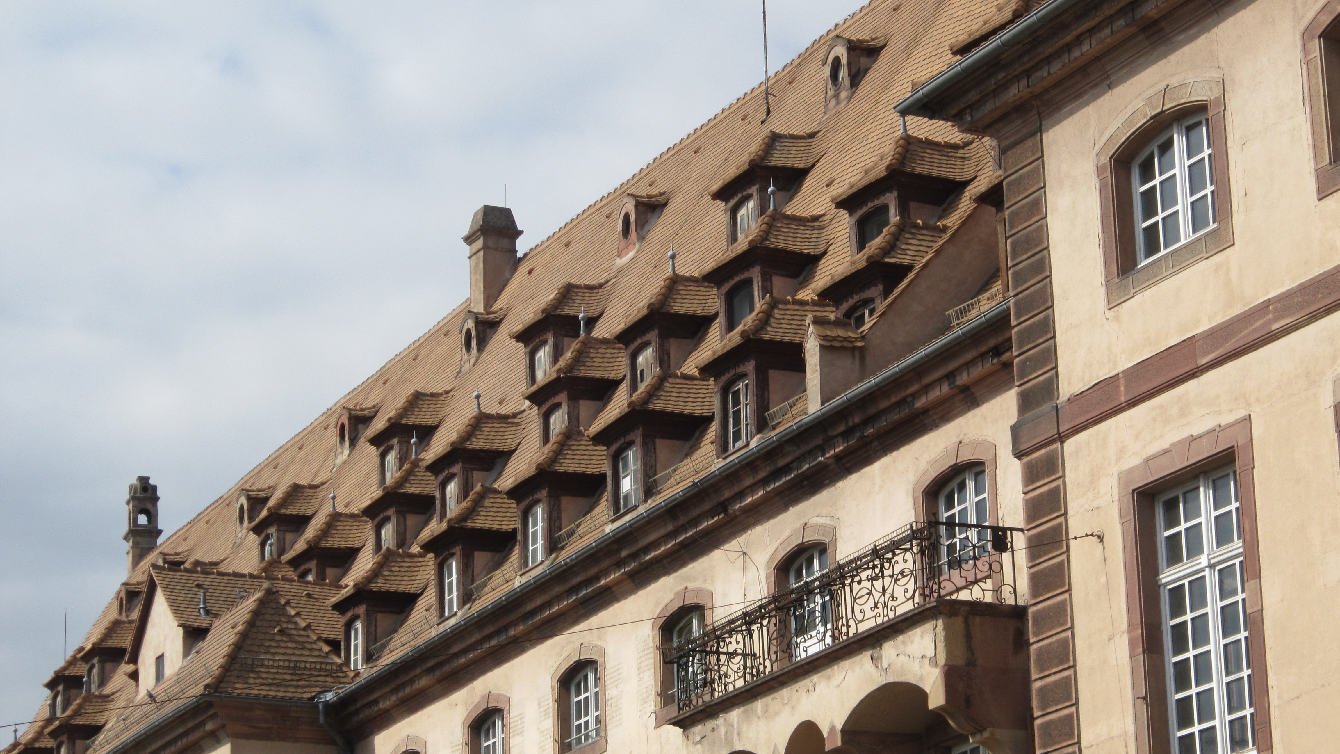 Hipped dormers on the roof of a building in the Hôpital Civil (Strasbourg, France)